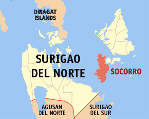 Map of the Surigao del Norte showing the location of Socorro